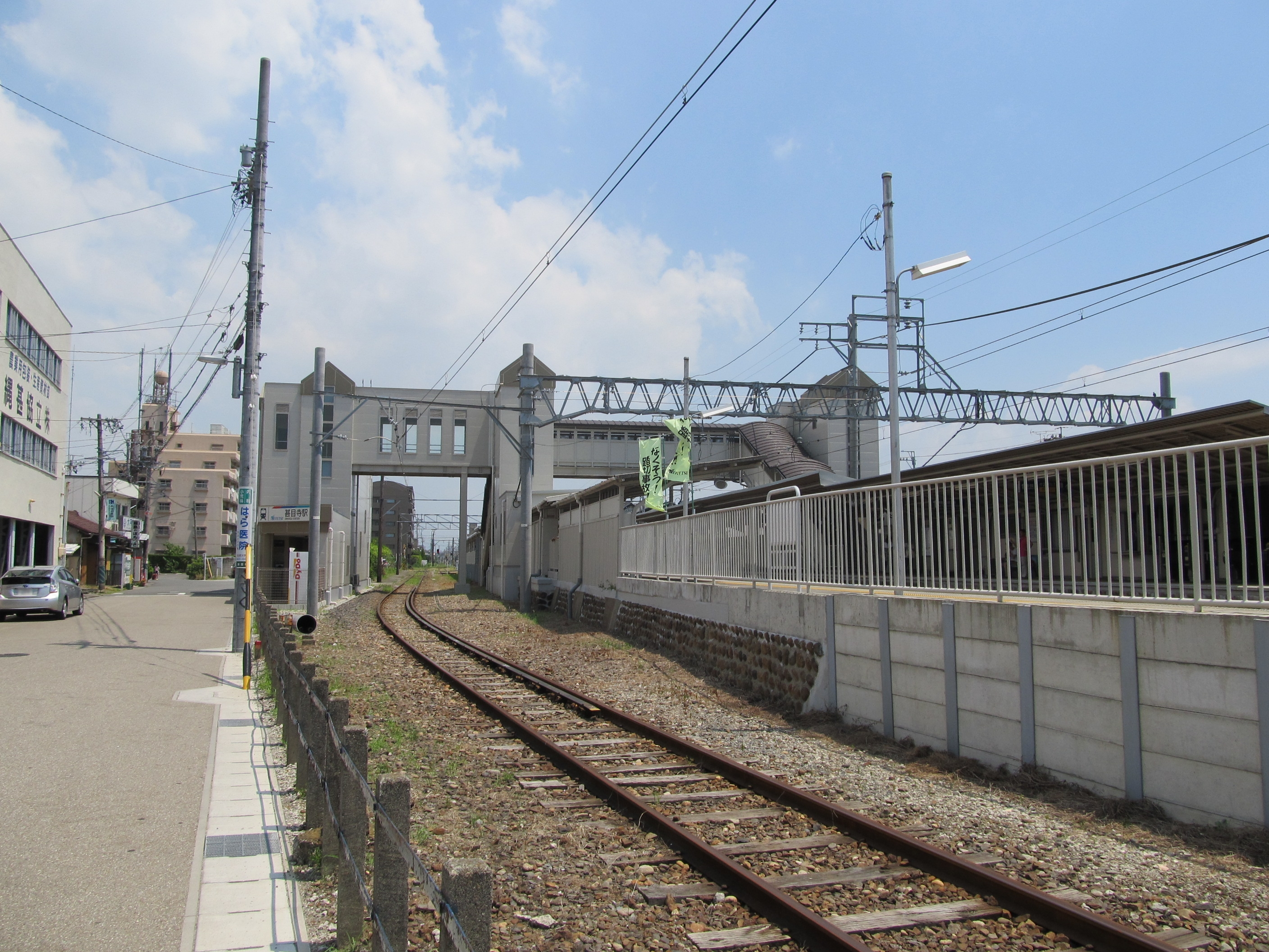 Nagoya Railroad Tsushima Line Jimokuji Station Indwelling line